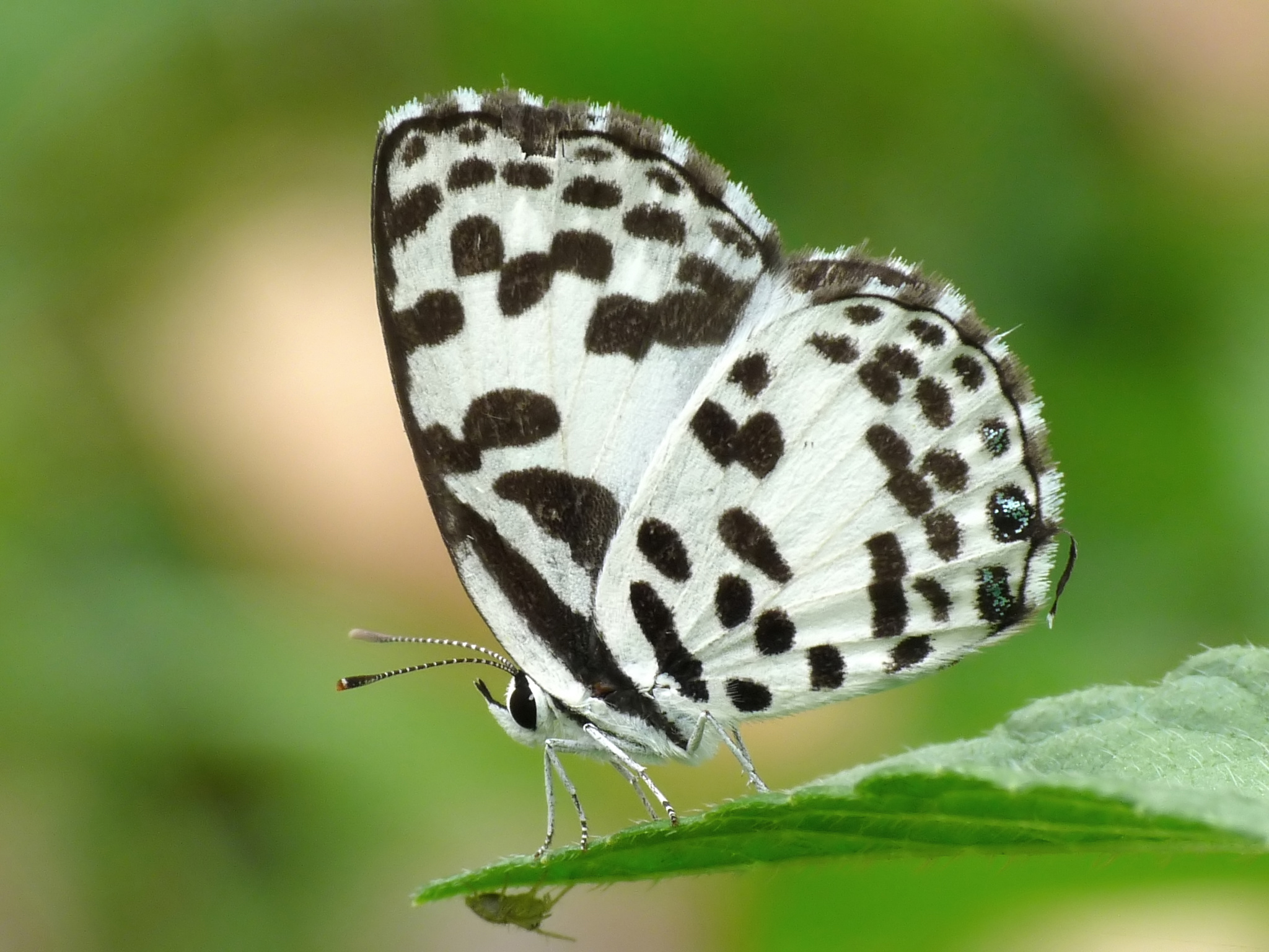 The Common Pierrot (Castalius rosimon) is a small butterfly found in India that belongs to the Lycaenidae or Blues family. Taken at Kadavoor, Kerala, India.